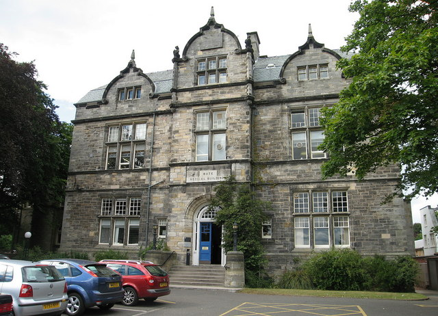 Bute Medical Building, University of St Andrews Medical School. Built between 1897 and 1899 by the architects Gillespie & Scott. The Medical School has now outgrown the building and a new medical school has been built.